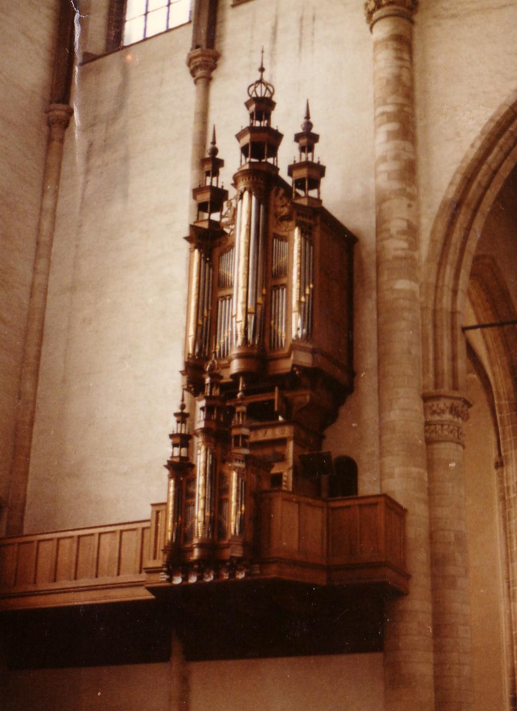 Transept organ in Sint Laurenskerk, Rotterdam, The Netherlands